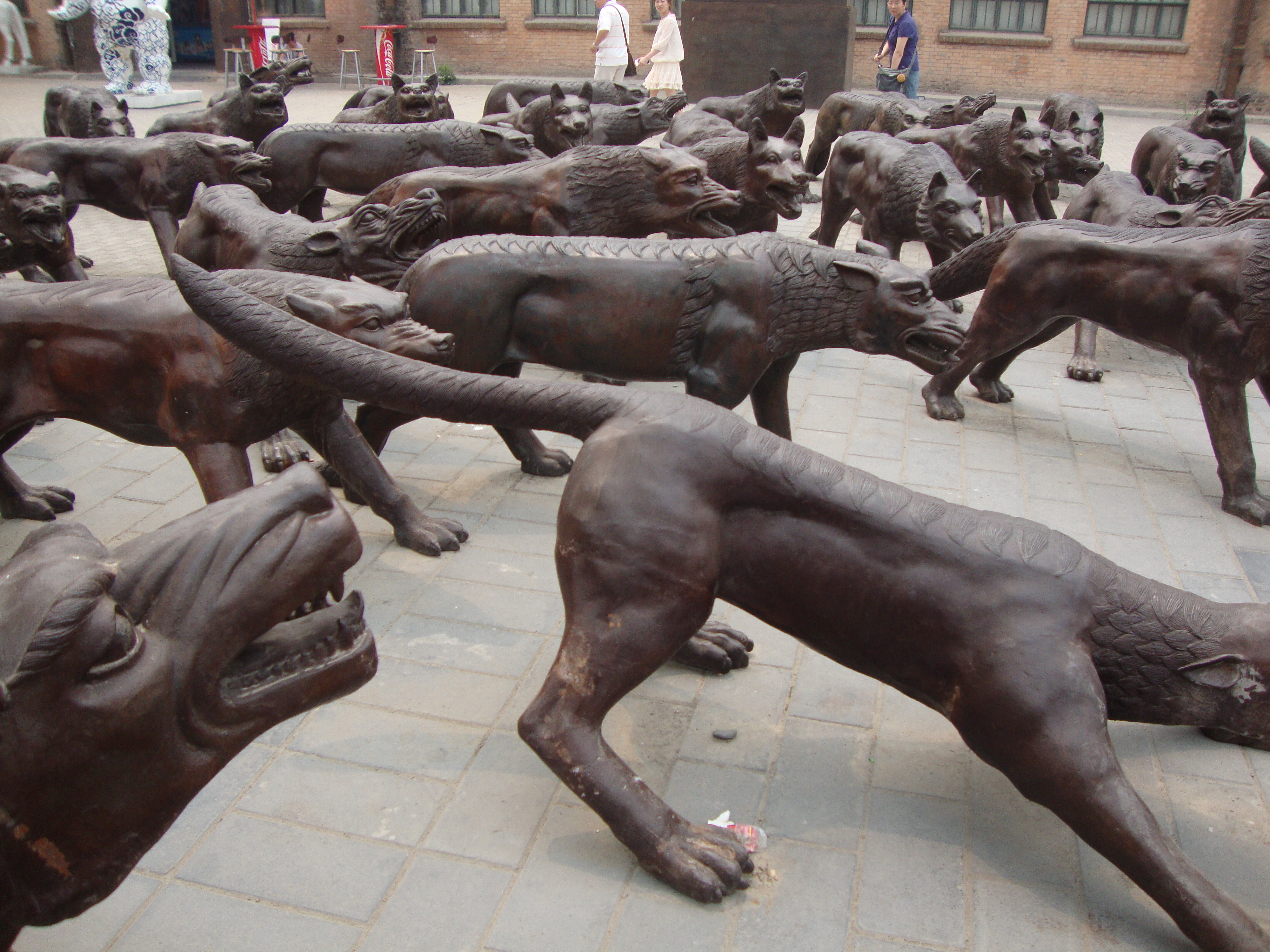 Artwork installed at 798 Art Zone in Beijing.